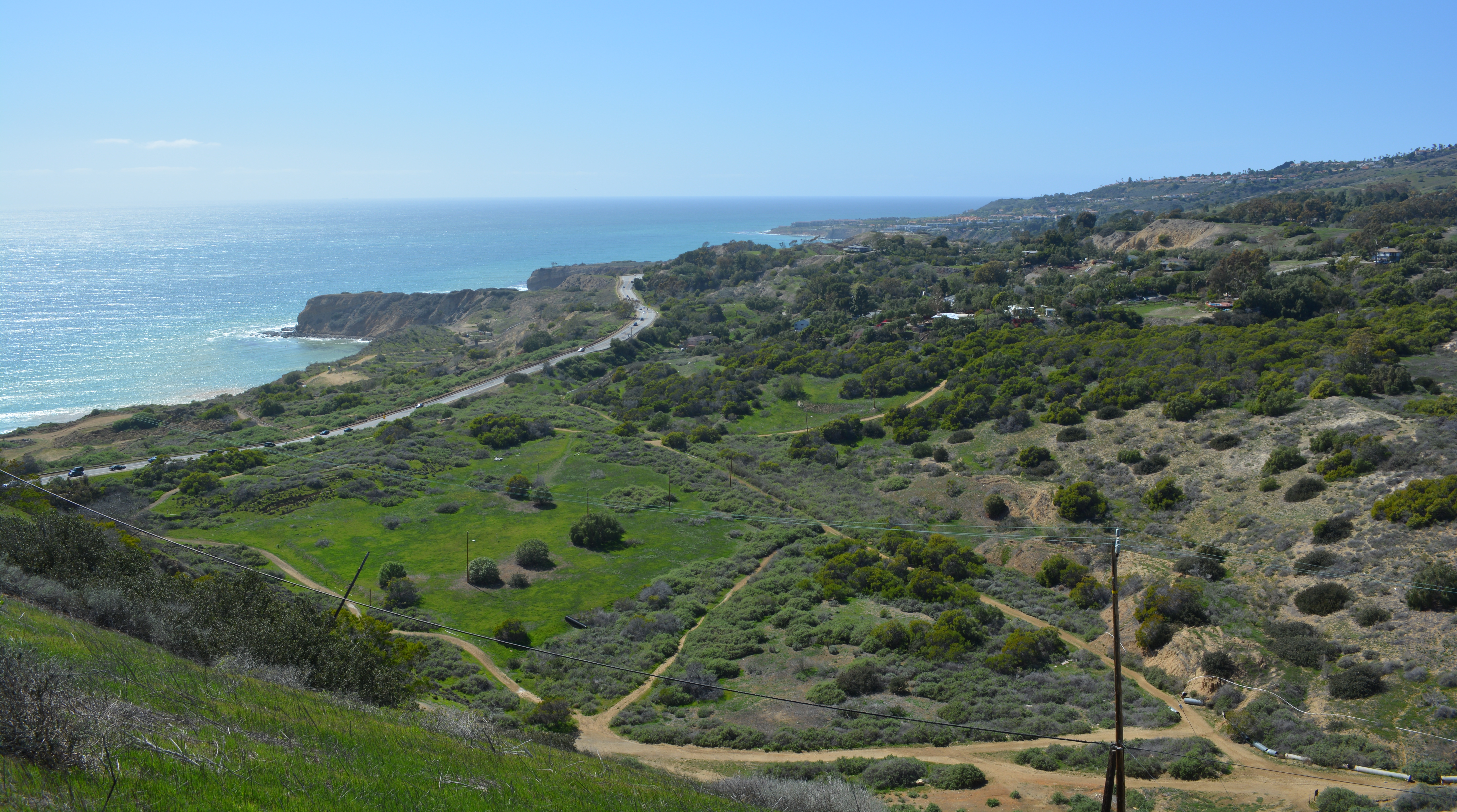 A photo of the Portuguese Bend Reserve on March 12, 2016. In the foreground is the Portuguese Bend landslide area. In the background are Inspiration Point, Portuguese Point, Long Point, and the Terranea Resort.